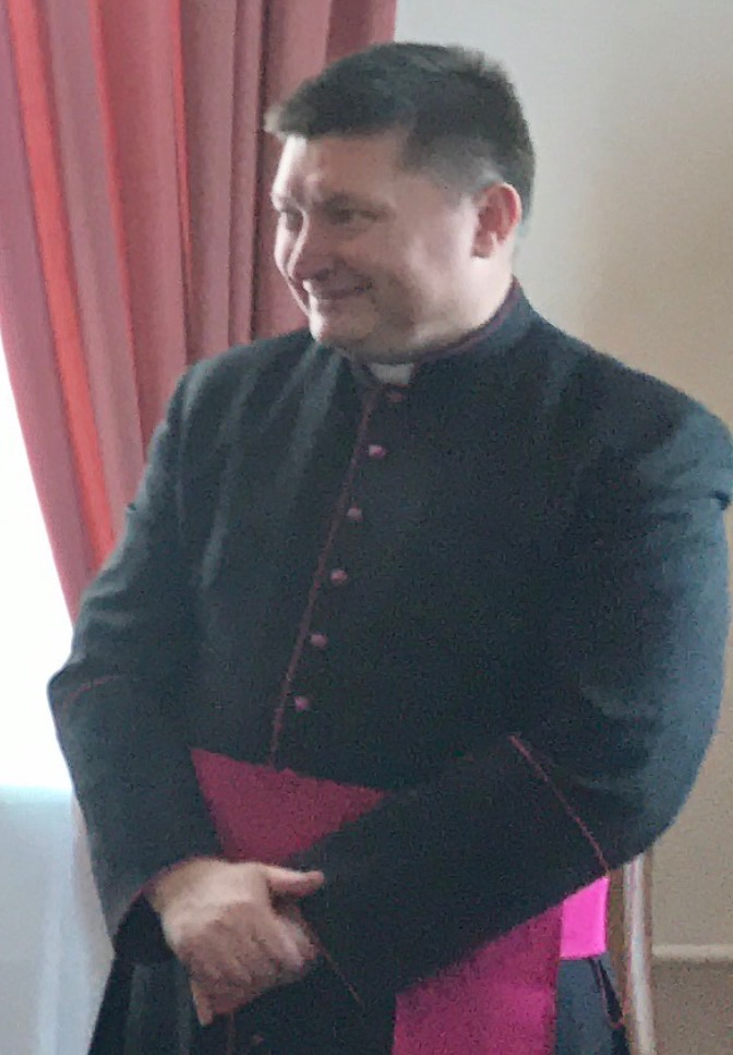 Apostolic Nuncio to Rwanda Archbishop Andrzej Józwowicz at the time of his work in the Apostolic Nunciature in Russia